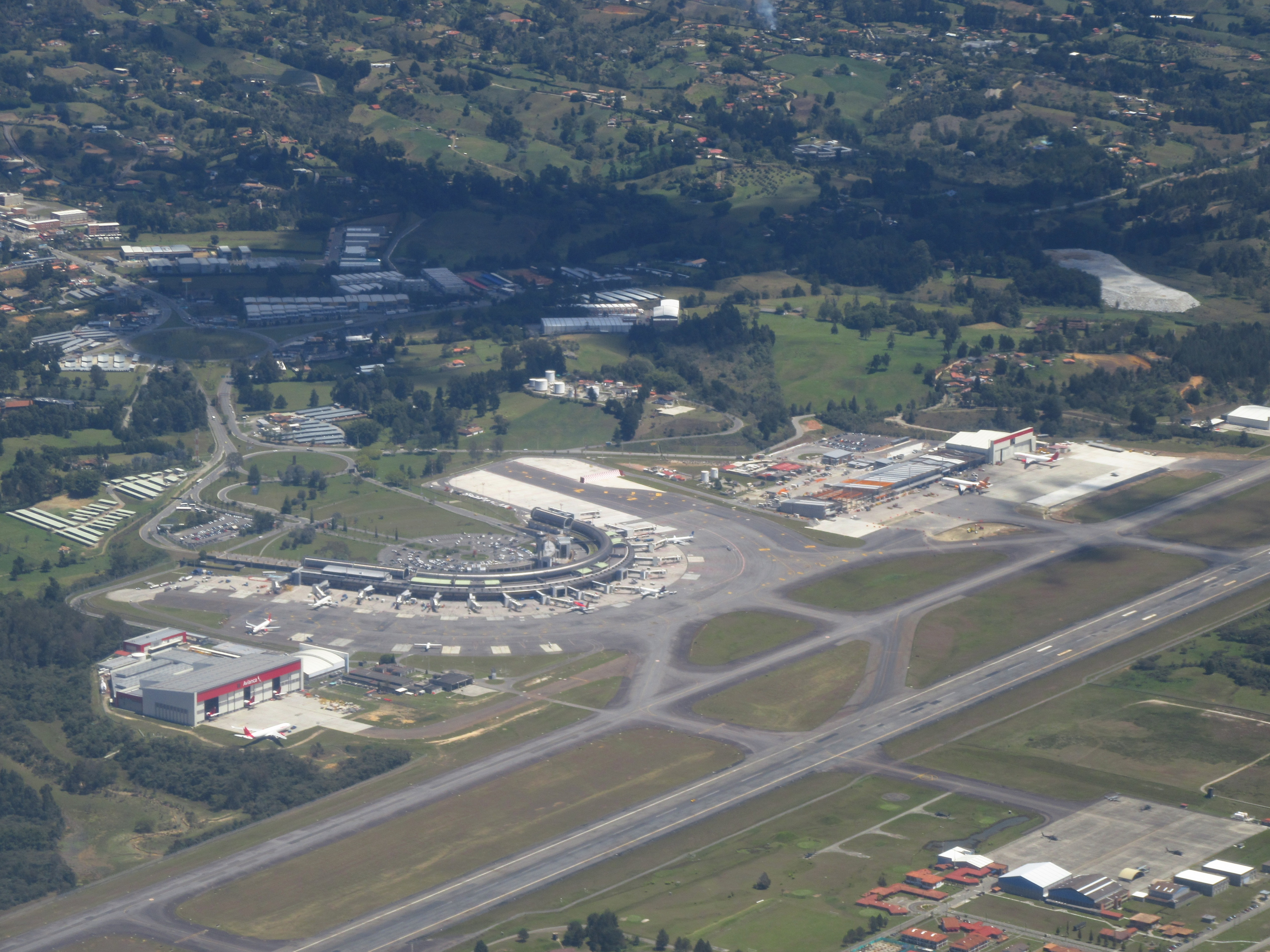 Vista aérea del aeropuerto internacional José María Córdova de Medellín.